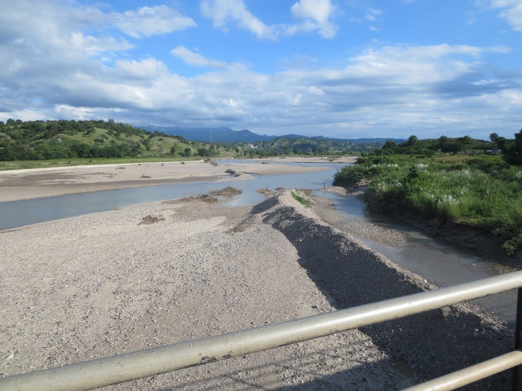 Seical River bridge crossing